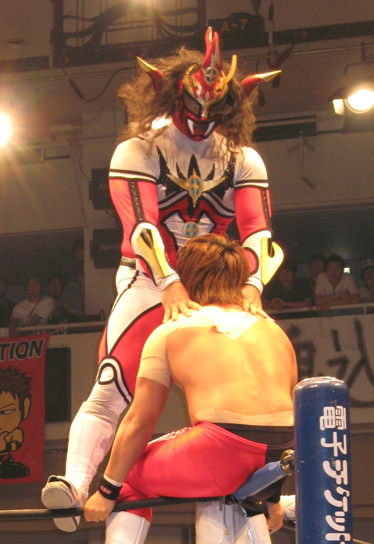 Minoru about to go for a ride courtesy Jushin Thunder Liger. Korakuen Hall, Tokyo, Japan. 6.17.07.